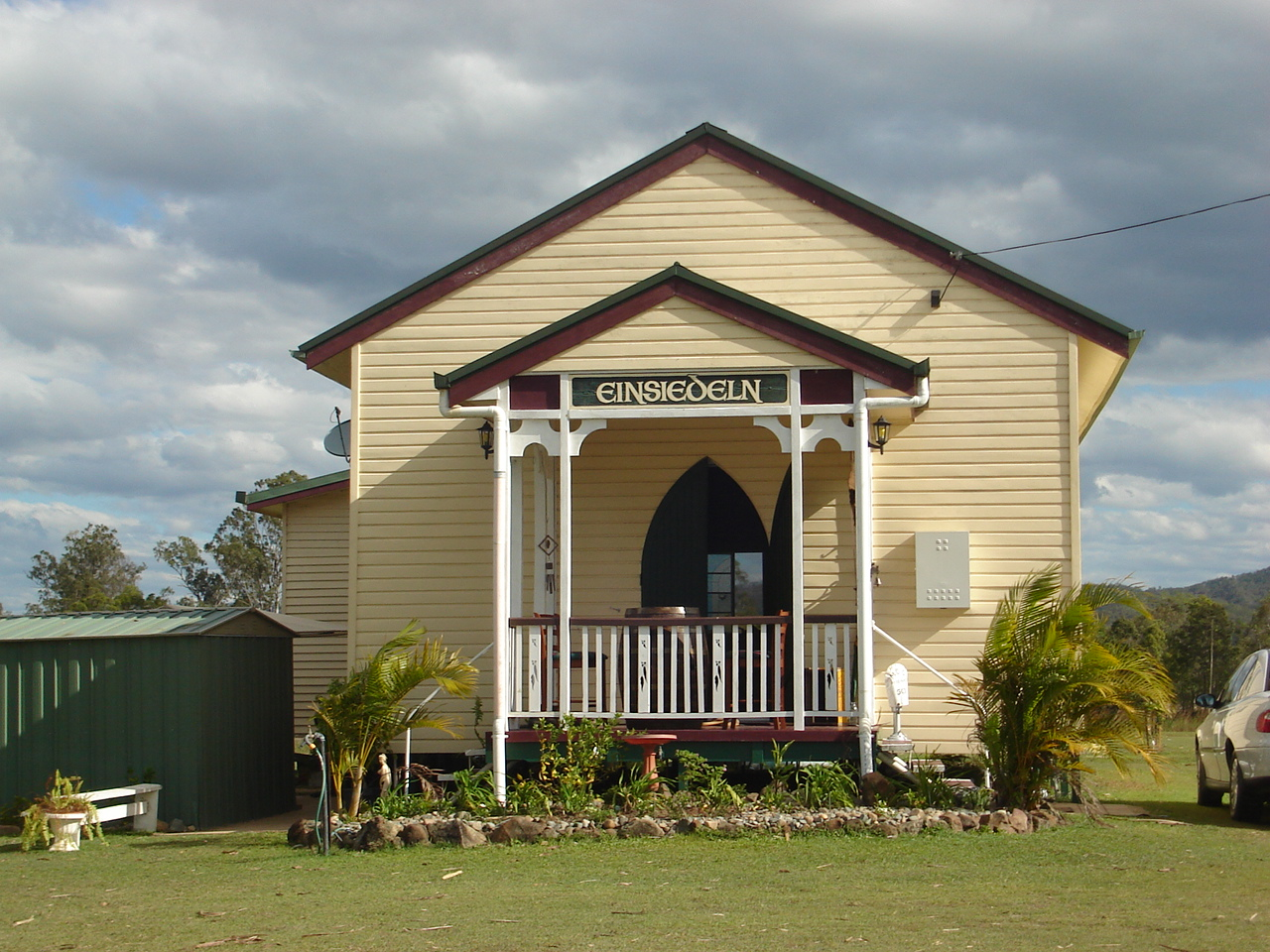 A photograph taken by me Robert Keane of Nancy Weir's deconsecrated church at Pinnacle, near Mackay, which became her home and which she named "Einsiedeln"